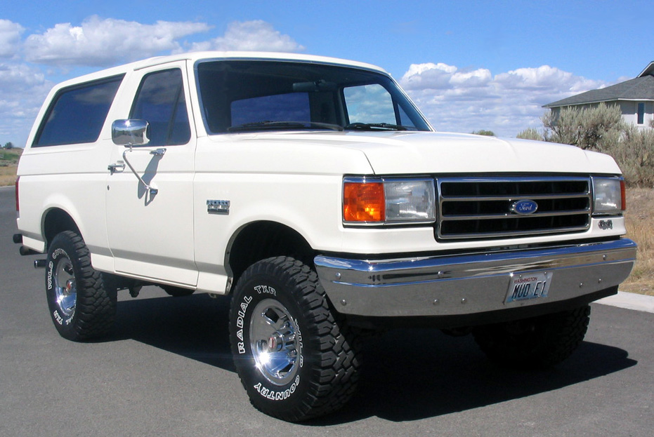 1990 Ford Bronco (front view)